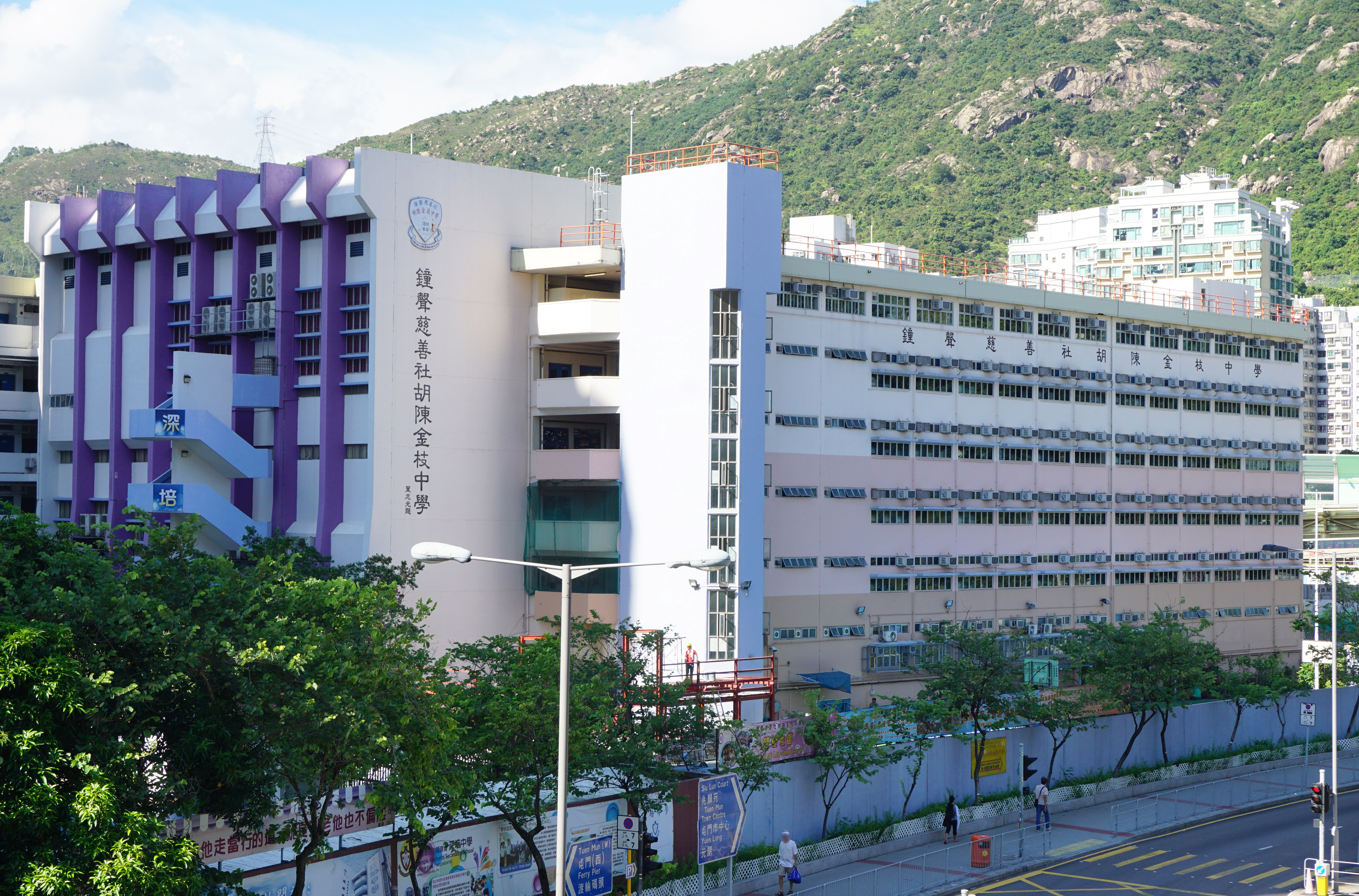 Chung Sing Benevolent Society Mrs. Aw Boon Haw Secondary School in Tuen Mun, Hong Kong.